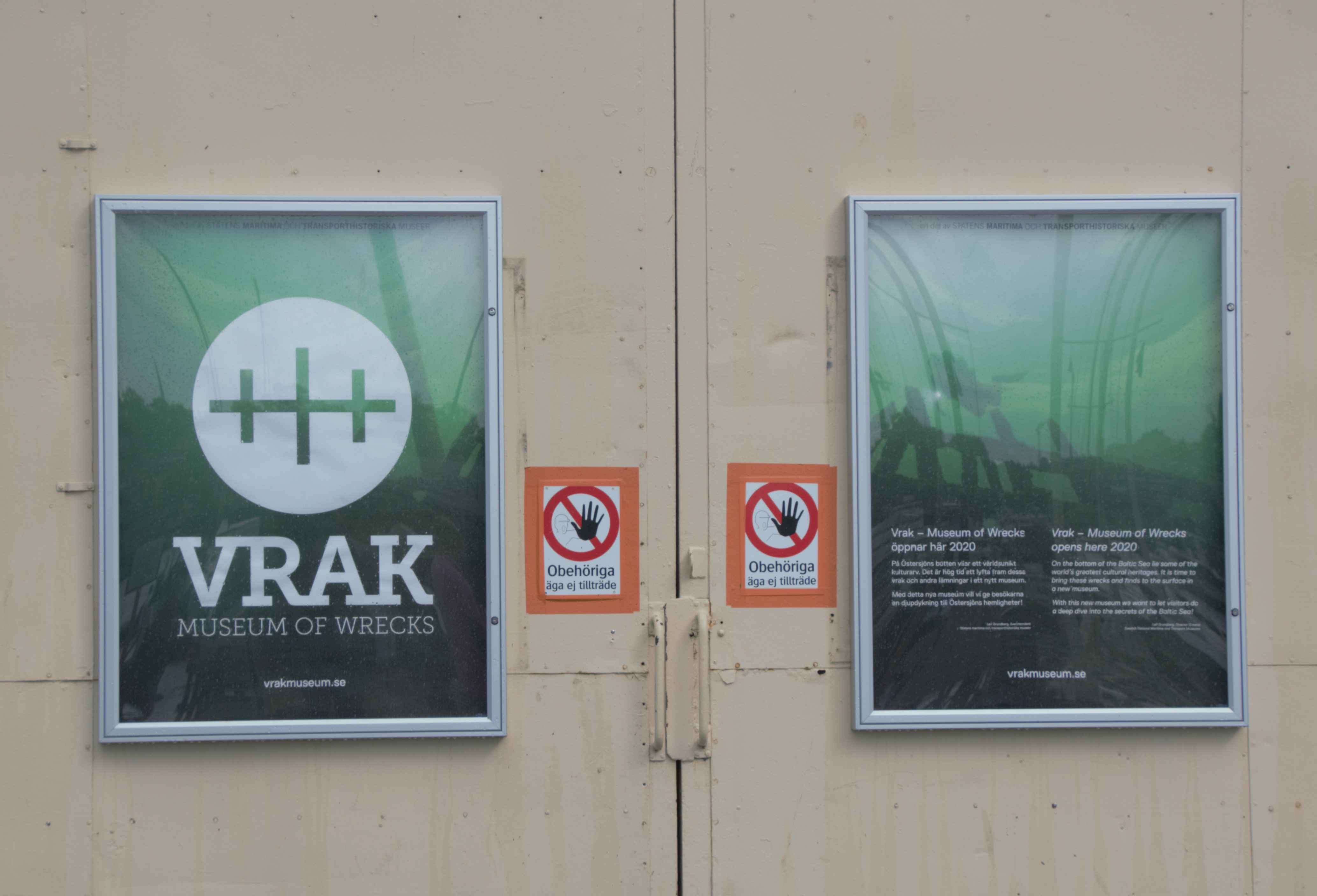 Vrak Museum of wrecks notice